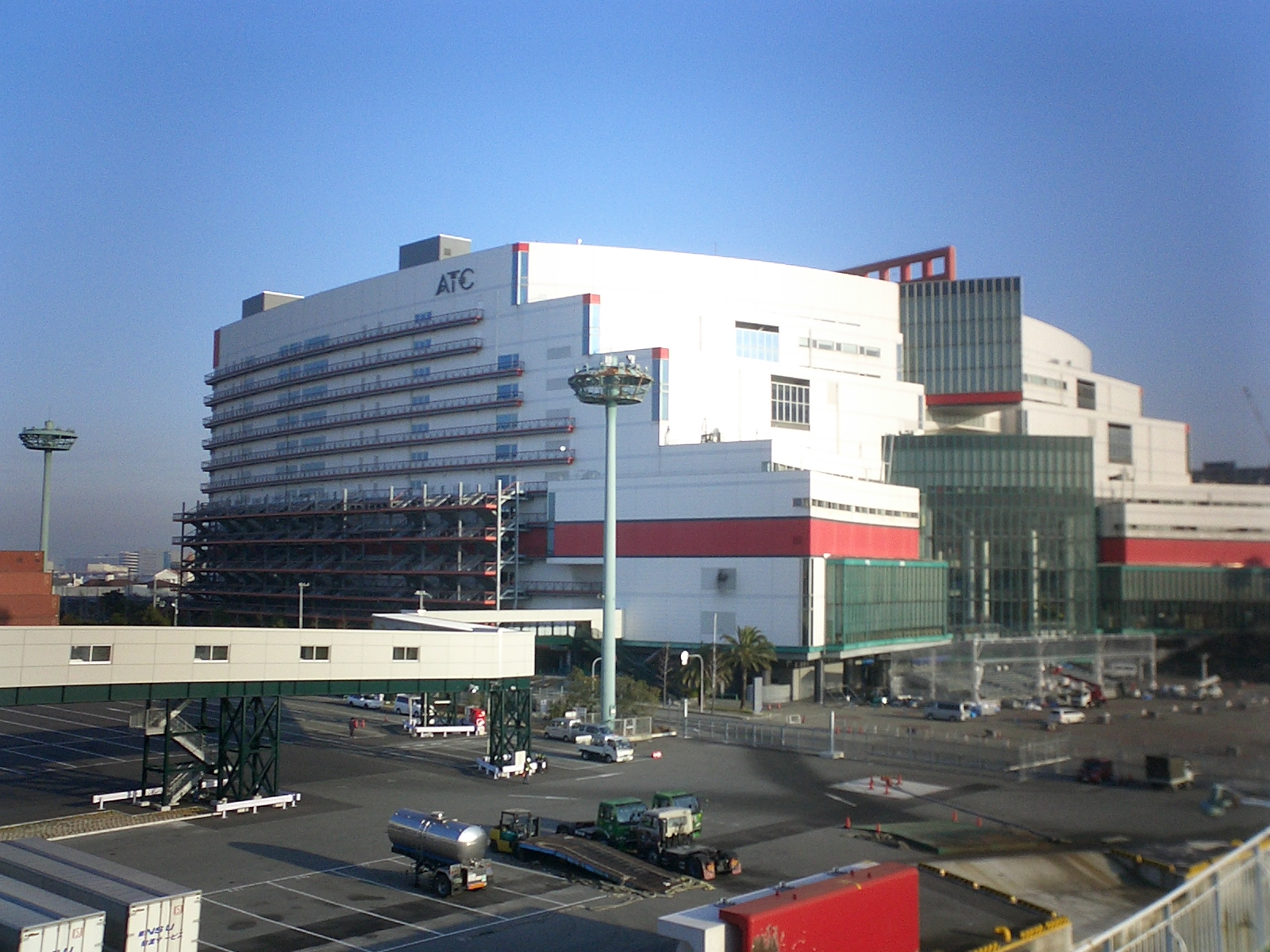 ITM Building of the Asia & Pacific Trade Center, or simply ATC, located in Suminoe-ku, Osaka, Japan. The building hosted the Consulate of Pakistan from 2008 to 2019.